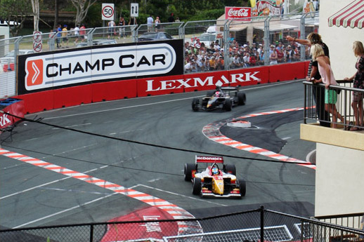 Lexmark Indy 2006